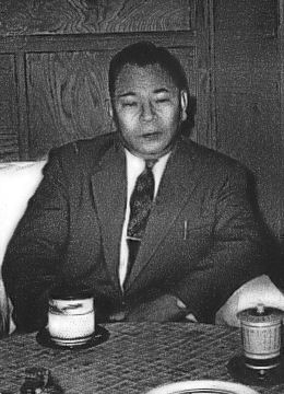 Kotaro Kokuba